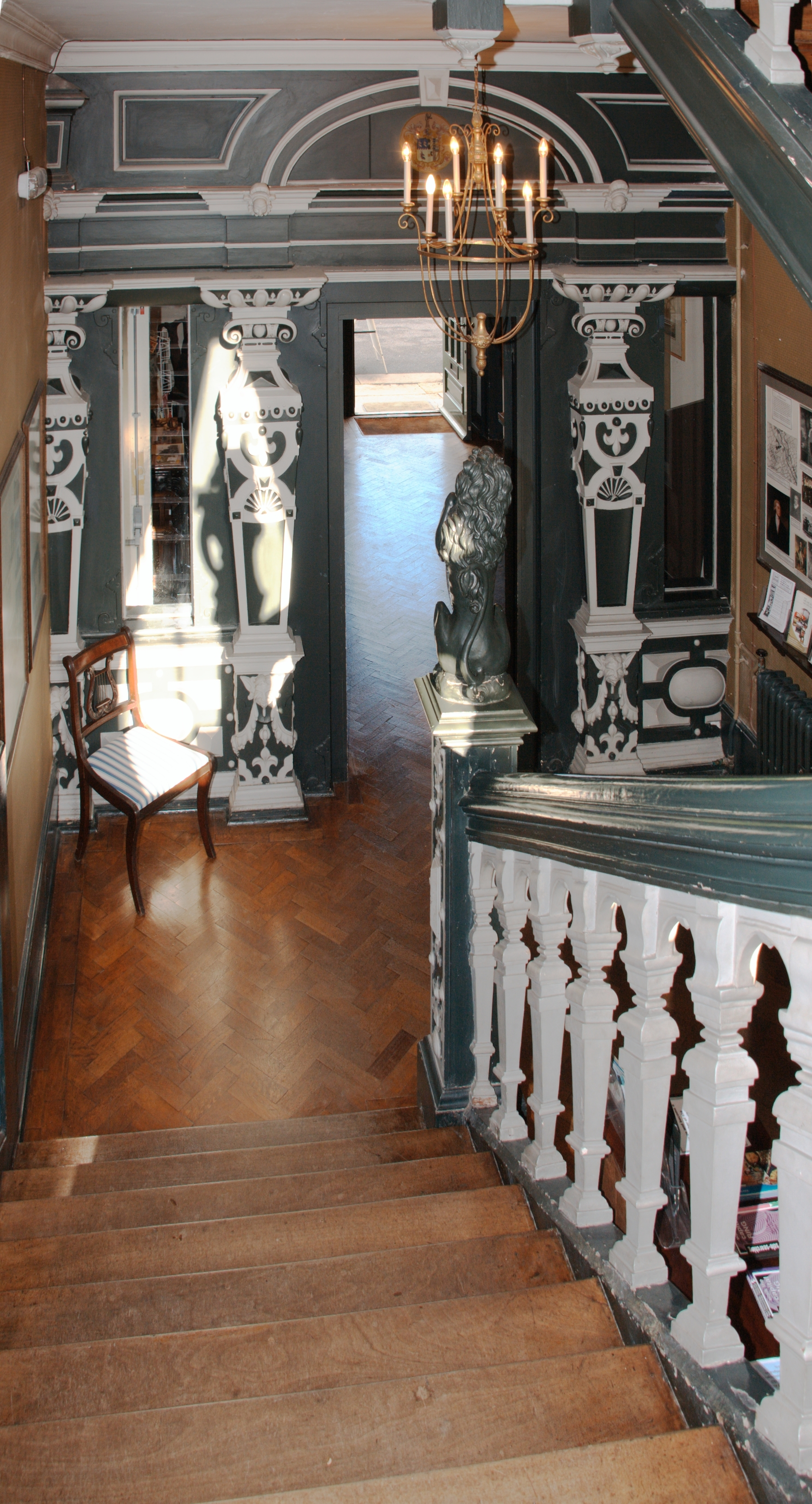 Looking down the first flight of stairs in Boston Manor House. Below and ahead is a pilastrade featuring tapered columns. This theme is repeated in the balustrade of the staircase. Boston Manor House, Boston Manor Road, Brentford, TW8 9JX. United Kingdom. Tel: +44 020 8583 4463. Building currently owned by the London Borough of Hounslow.